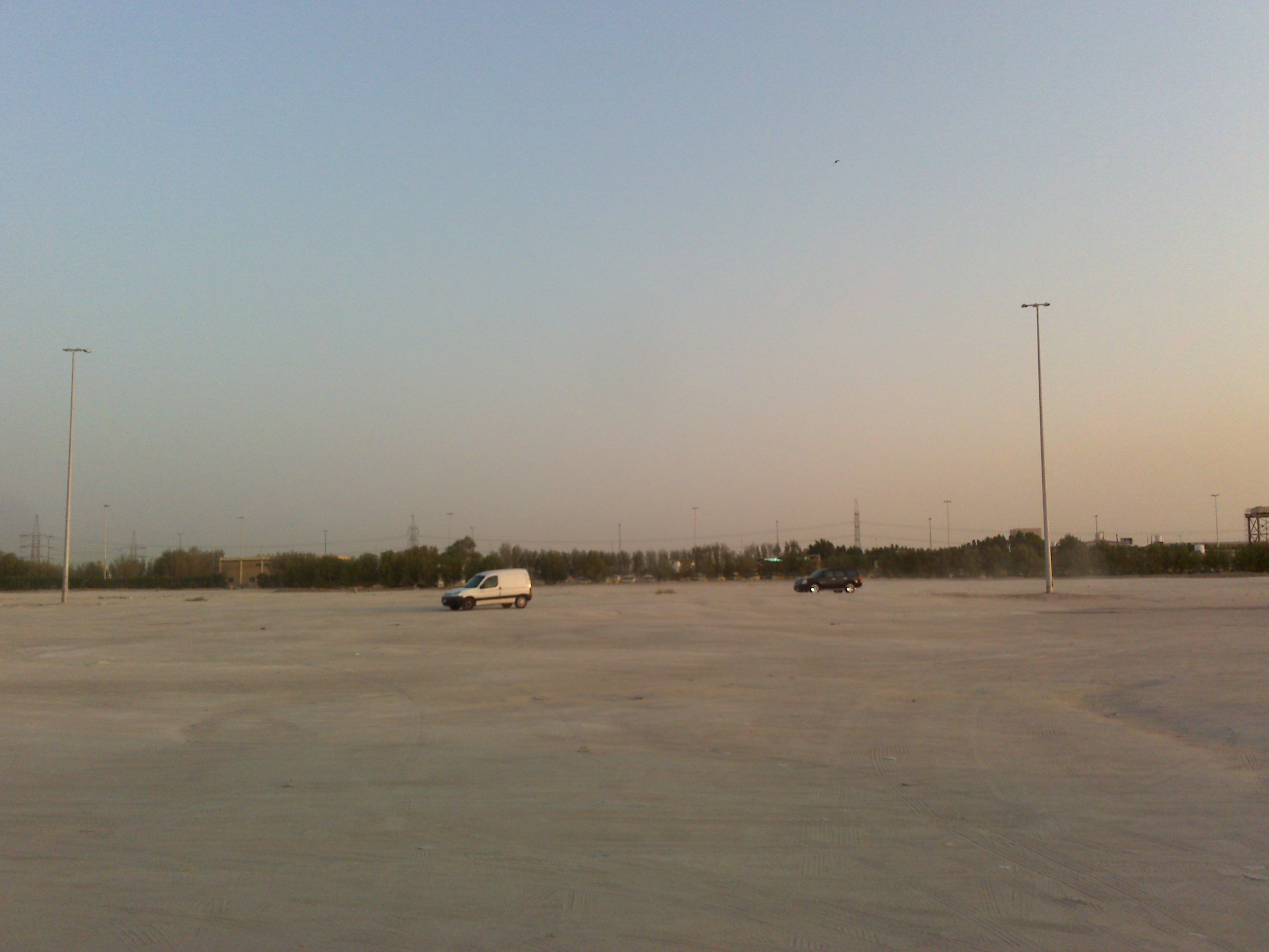 Jumma Sook, Kuwait